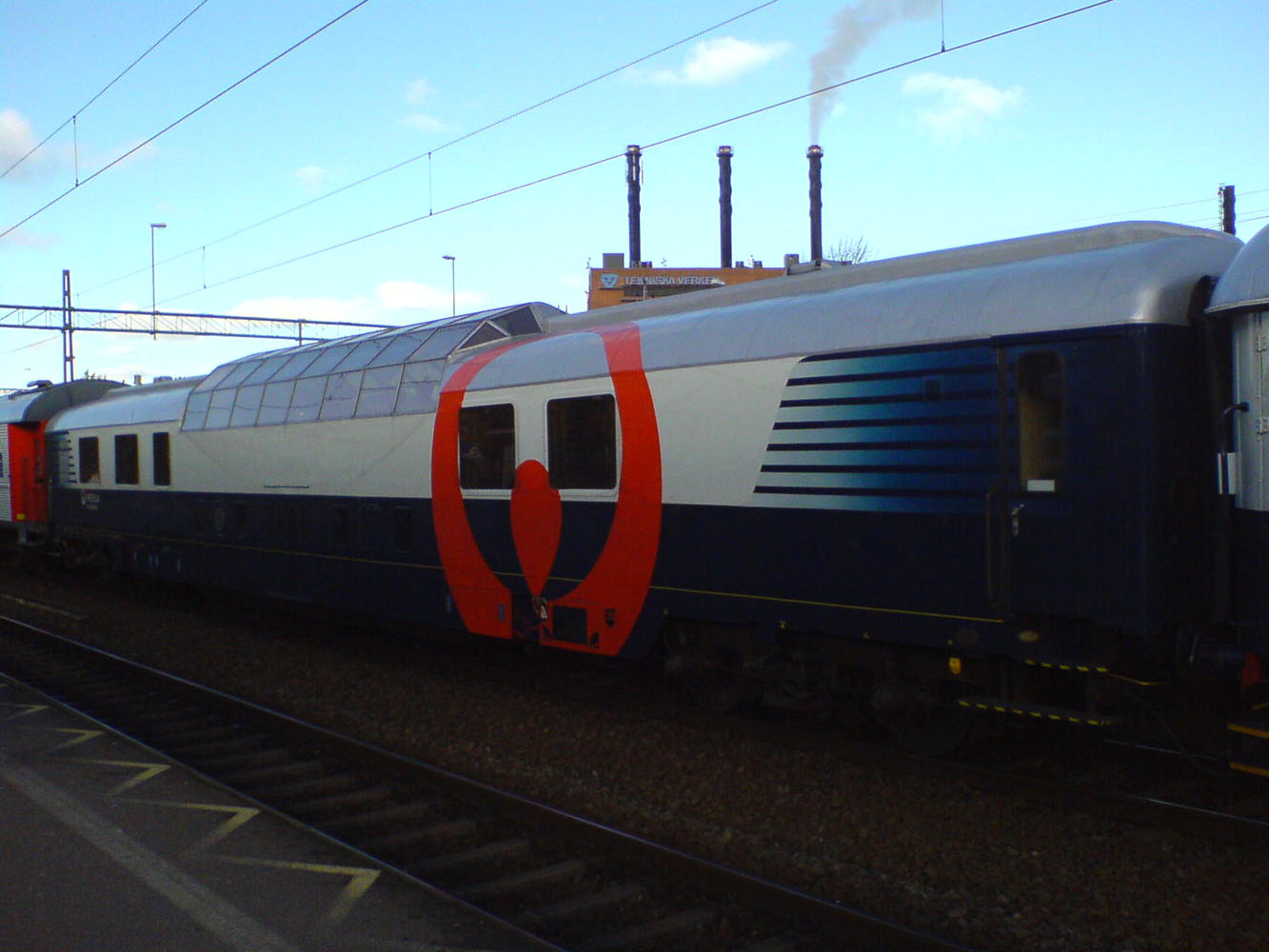 Netrail P1 dome car, former DB ADümh 101. Used as restaurant/bistro car in Veolia Transport's weekend train between Stockholm and Malmö, Sweden.